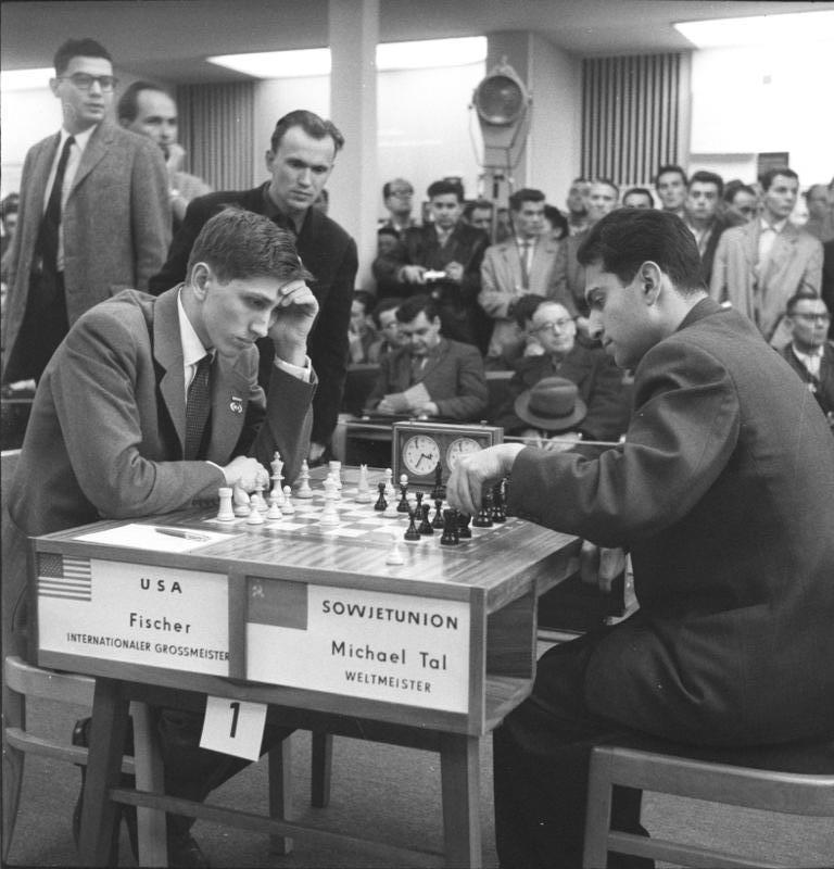 Germany Zentralbild/Kohls/Leske 1.11.1960 XIV. Schacholympiade 1960 in Leipzig Im Ringmessehaus in Leipzig wird vom 16.10. bis 9.11.1960 die XIV. Schacholympiade ausgetragen. Am 28.10.1960 begannen die Kämpfe der Finalrunde. UBz: UdSSR - USA: .Weltmeister Tal - Internationaler Großmeister Fischer United States of America United States of America Central image / Kohls / Leske Nov. 1, 1960 w:14th Chess Olympiad, 1960 in Leipzig In the tournament in Leipzig took place between October 26(16?) and November 9, 1960. On Oct. 28, 1960 the final round began. Shown here: USSR - USA: World Champion Tal - Fischer International Grandmaster. "The clash of two top stars was short but pithy game" resulting in a draw. This is game 23 in Fischer's . Tal is in the act of playing 7 ... Ne7.